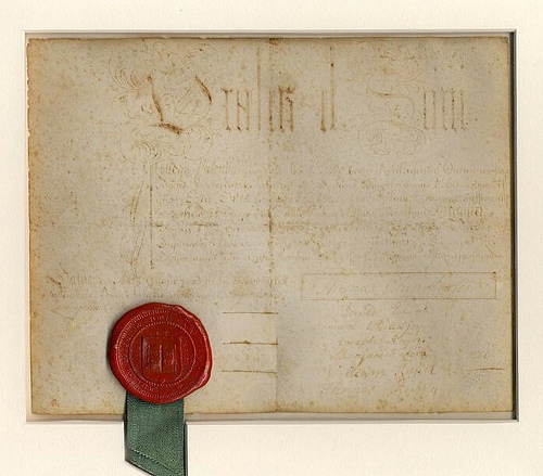 Masters diploma of Ezra Stiles, Yale College, class of 1746. Stiles was later president of Yale. Courtesy of the Yale University Manuscripts & Archives Digital Images Database. Retouched by MarmadukePercy.